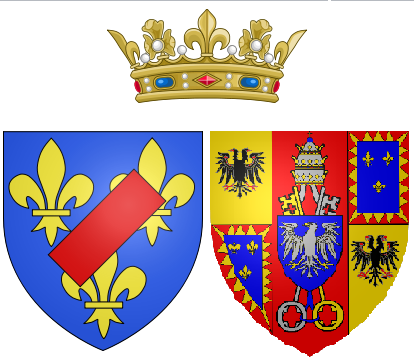 Arms of Maria Teresa Felicitas d'Este as Duchess of Penthièvre